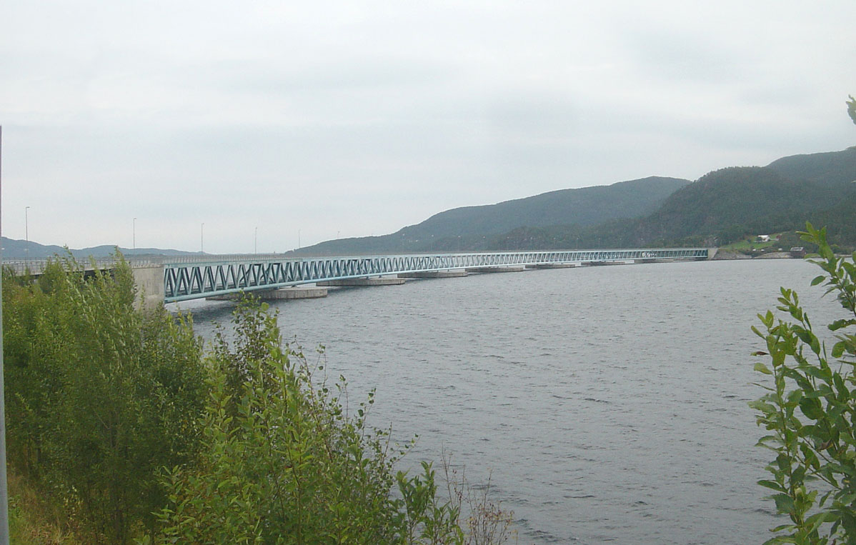 The bridge Bergsøysundbrua in Norway, seen from the Southwest; the island of Aspøya in the rear